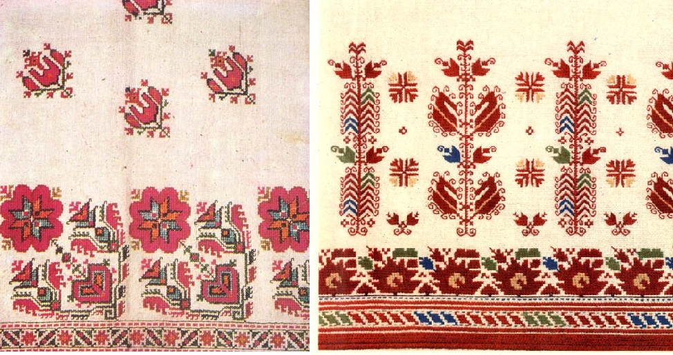 Traditional Bulgarian embrodery from Sofia and Trun